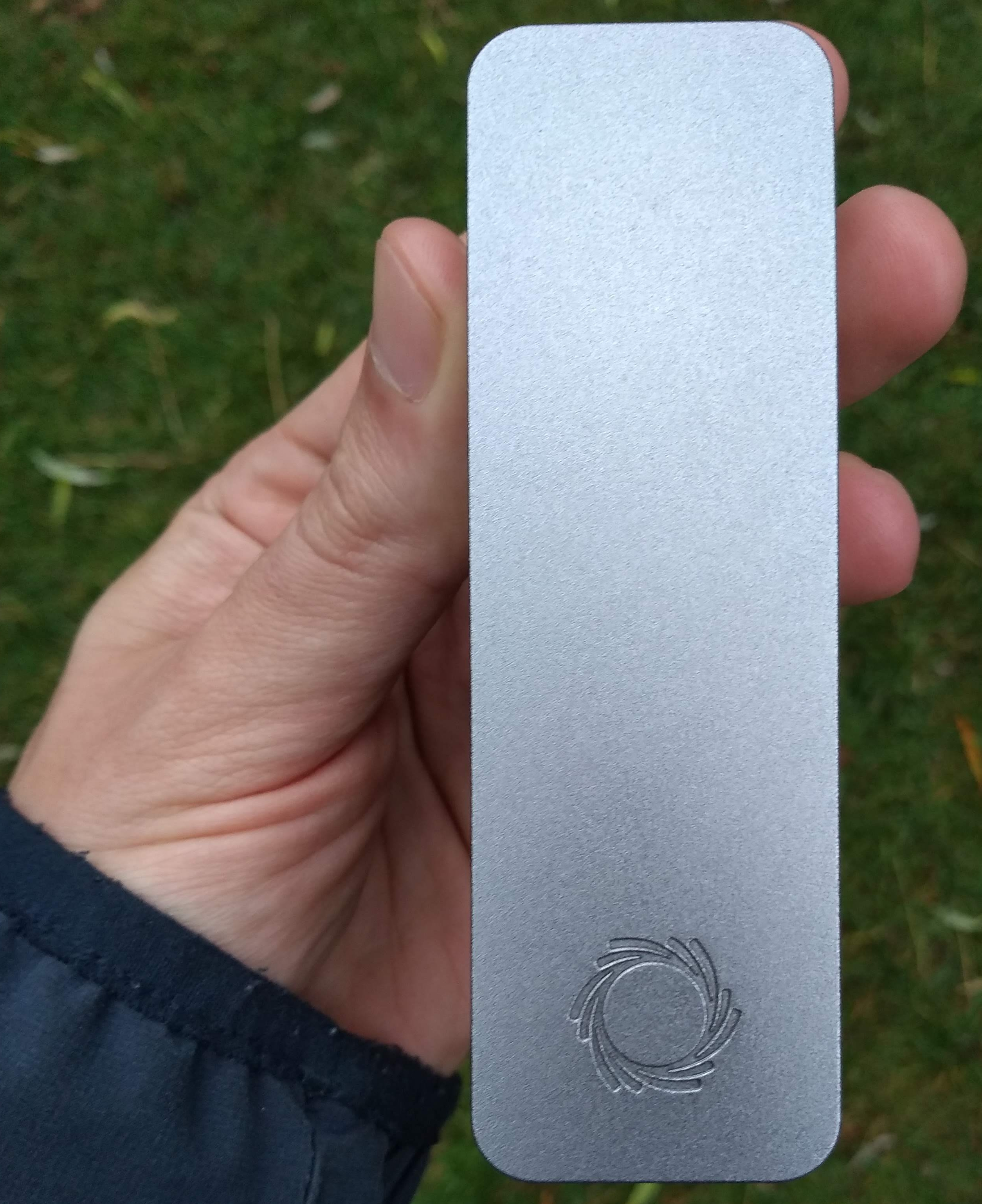 Oxford Nanopore MinION side USB cropped. Here is the description of the full experiment where that equipment was used and the photo taken